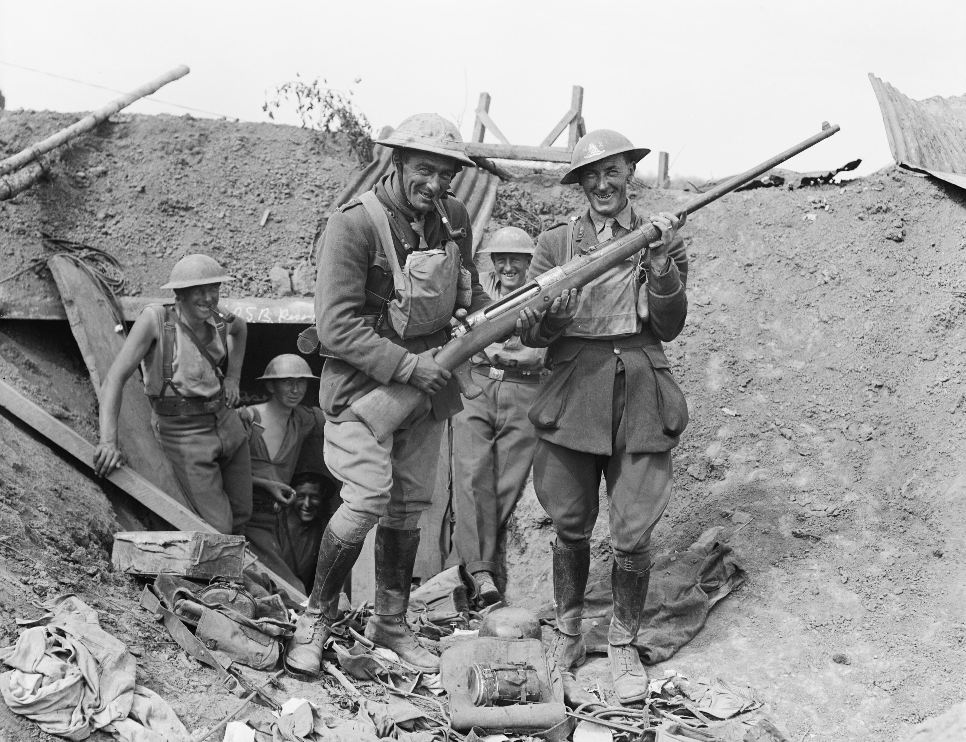 Photograph of New Zealand gunners with a captured German anti-tank rifle, in a German near Grévillers, France.